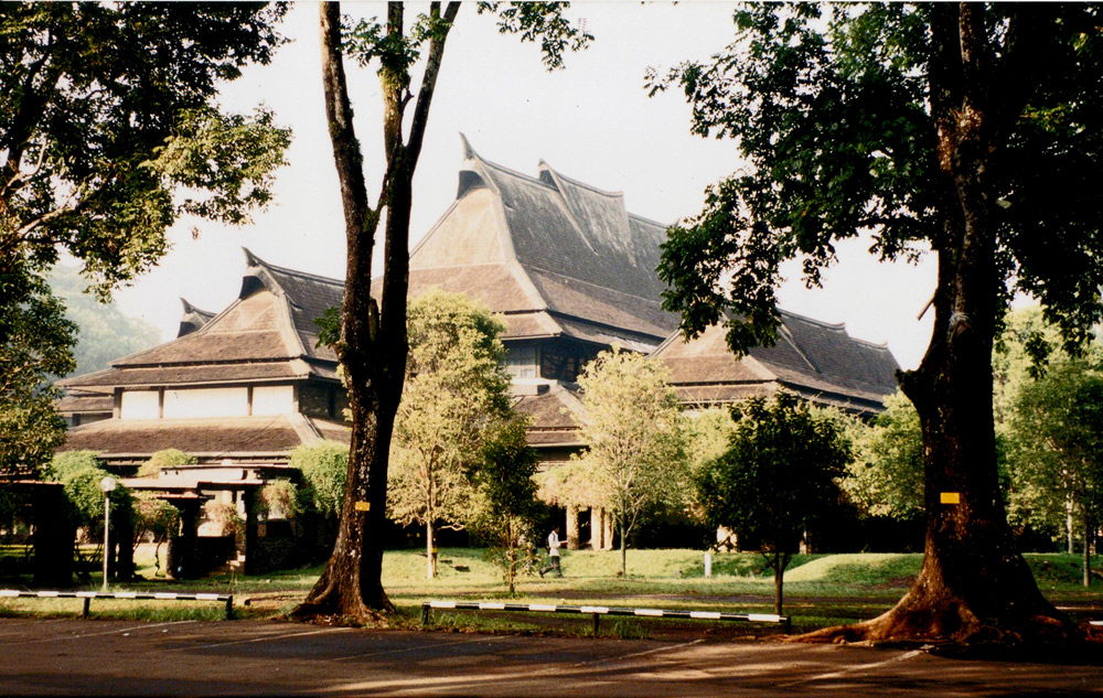 Bandung Institute of Technology. Photo taken by Merbabu. 1997